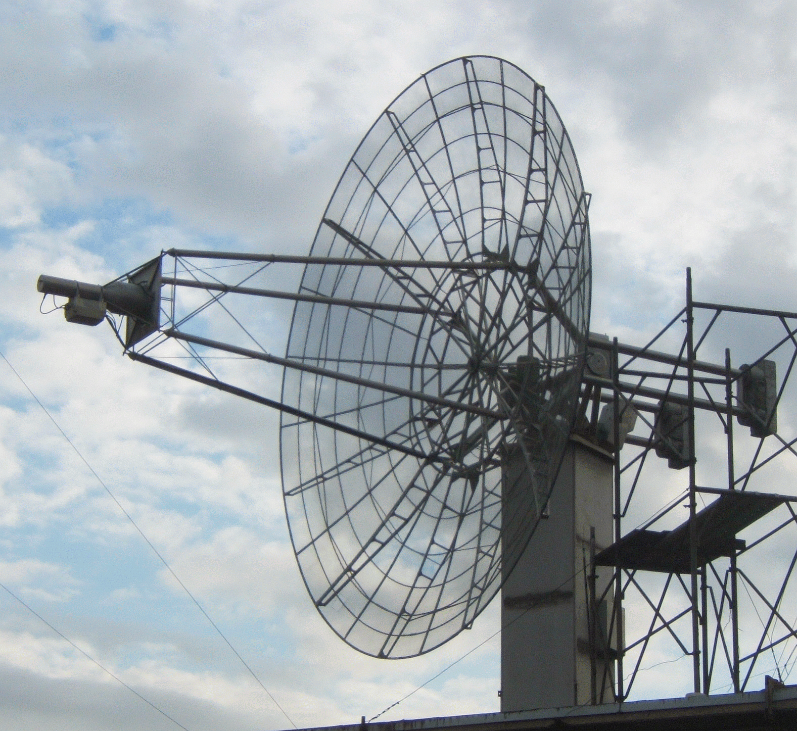 Antenna for EME ("moonbounce") communications on UHF amateur radio bands. Built and operated by Salvatore Gerloni I2FZX (SK), Milano, Italy. Parabolic reflector diameter is 6m.